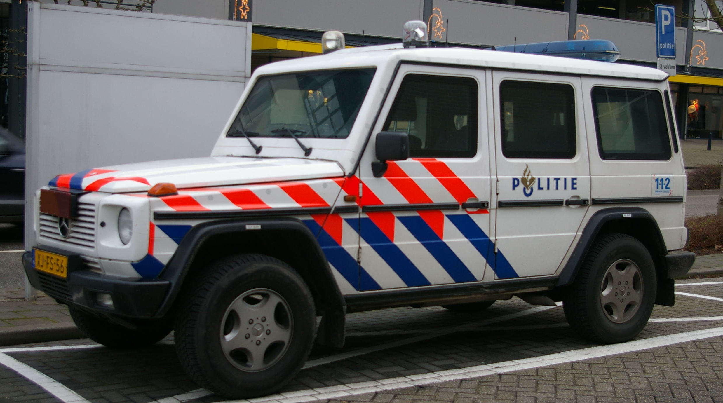 Mercedes-Benz G-class (W463) four-wheel-drive vehicle, used by the Amsterdam-Amstelland police corps. Used on Politie Amsterdam-Amstelland.